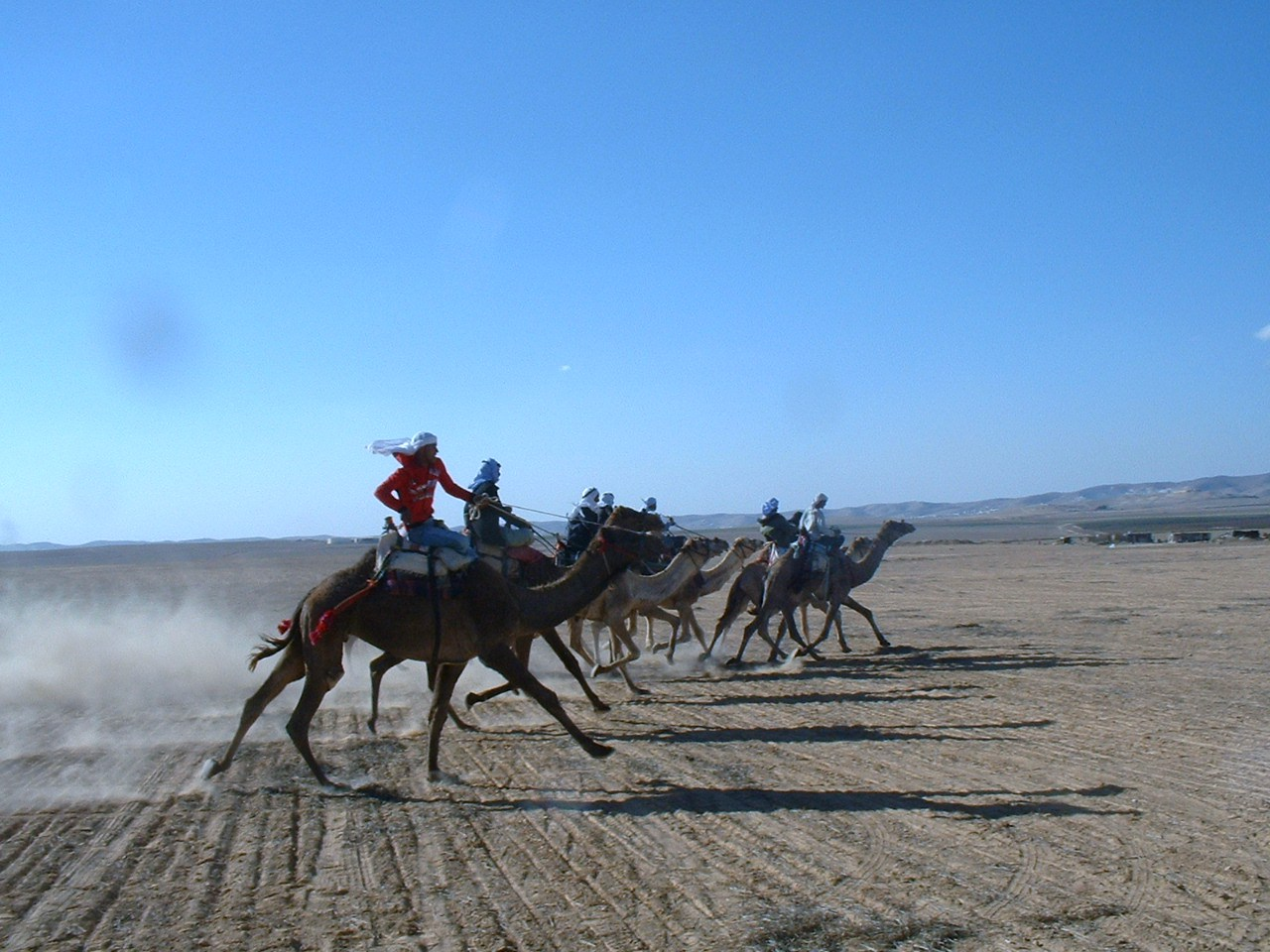 Traditional Bedouine camel race in the Negev desert, near Arad, Israel.